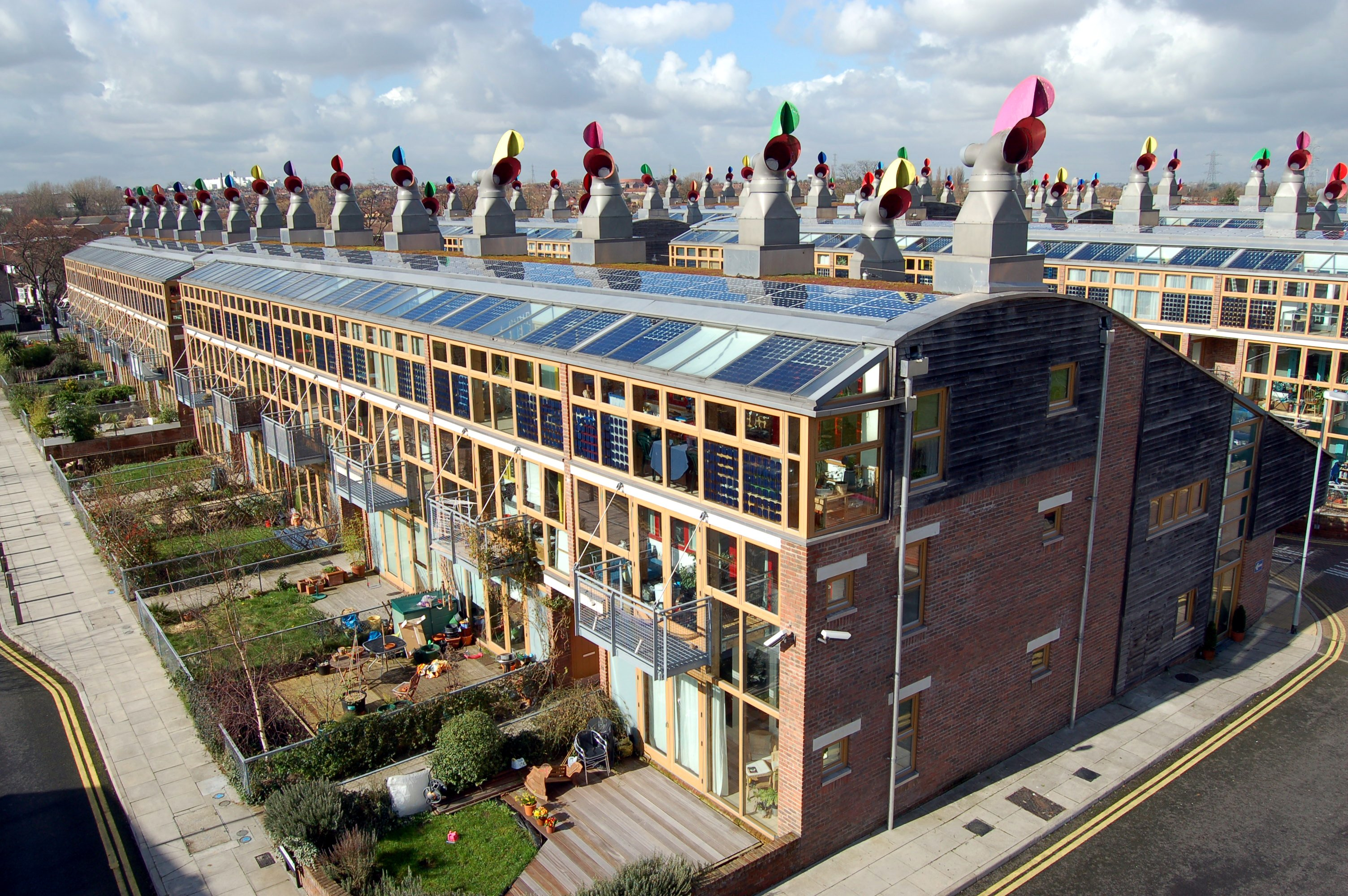 BedZED eco-village, England.